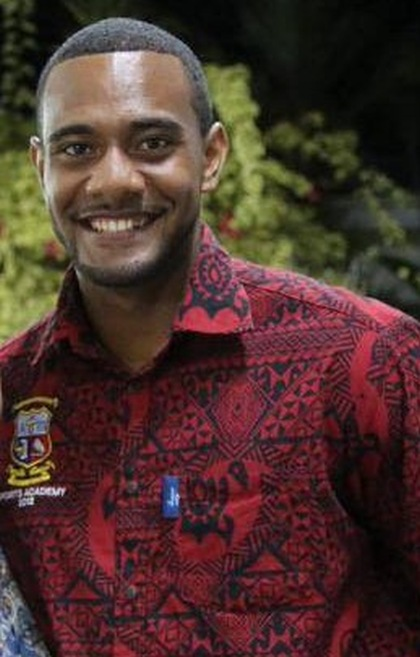 Ambassador Reed hosted a cocktail for U.S. Olympians Dwight Phillips and Hazel Clark and gave them an opportunity to meet members of the local sporting fraternity.